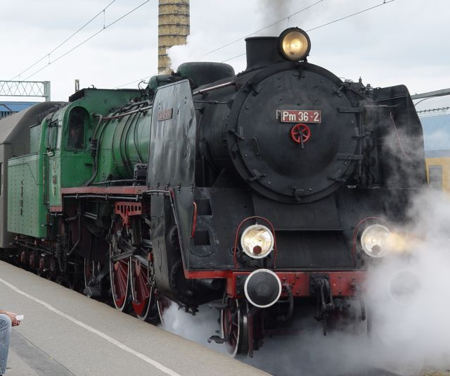 Polish Pm36-2 "Piękna Helena" in Poznań